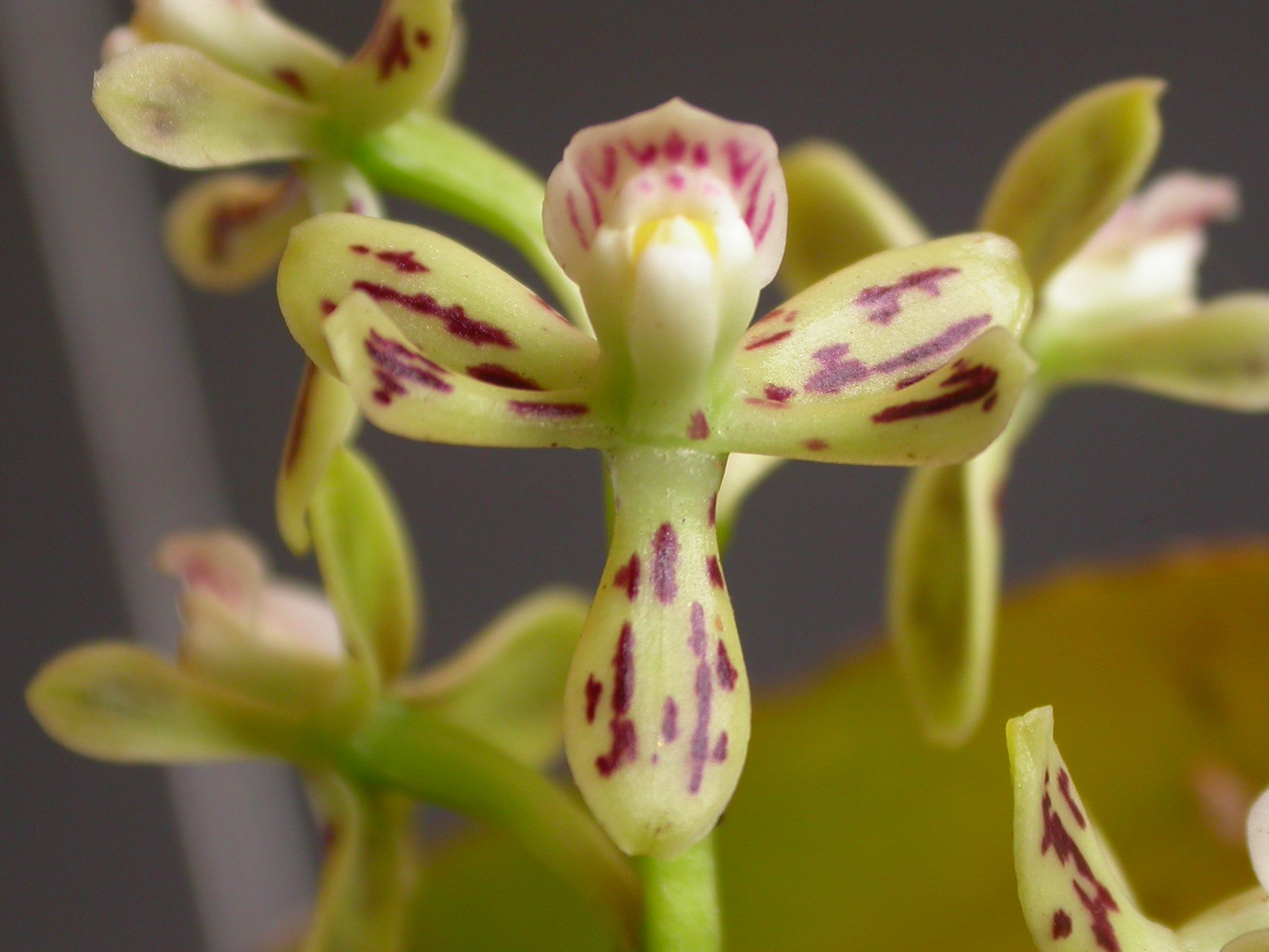 Anacheilium marcilianum